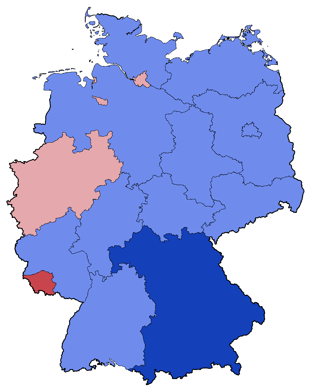 Electoral map showing the party list vote results (Zweitstimmen) of the 1990 Bundestag (German parliament) elections by state. Dark blue denotes states where CDU/CSU had the absolute majority of the votes; lighter blue denotes states where CDU/CSU had the plurality of votes; red denotes states where the SPD had the absolute majority of the votes; and pink denotes states where the SPD had the plurality of the votes.